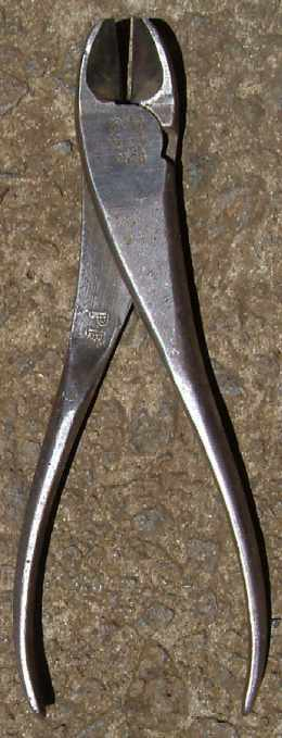 Side cutters photographed by me. Securiger 14:39, 23 Feb 2005 (UTC)